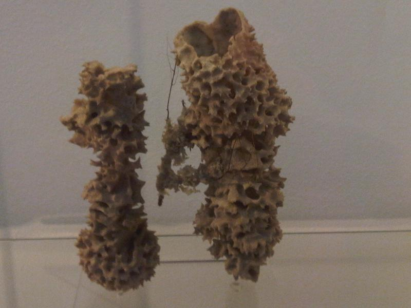 Callyspongia plicifera (Sponge - Porifera) at the Natural History Museum in London, England.